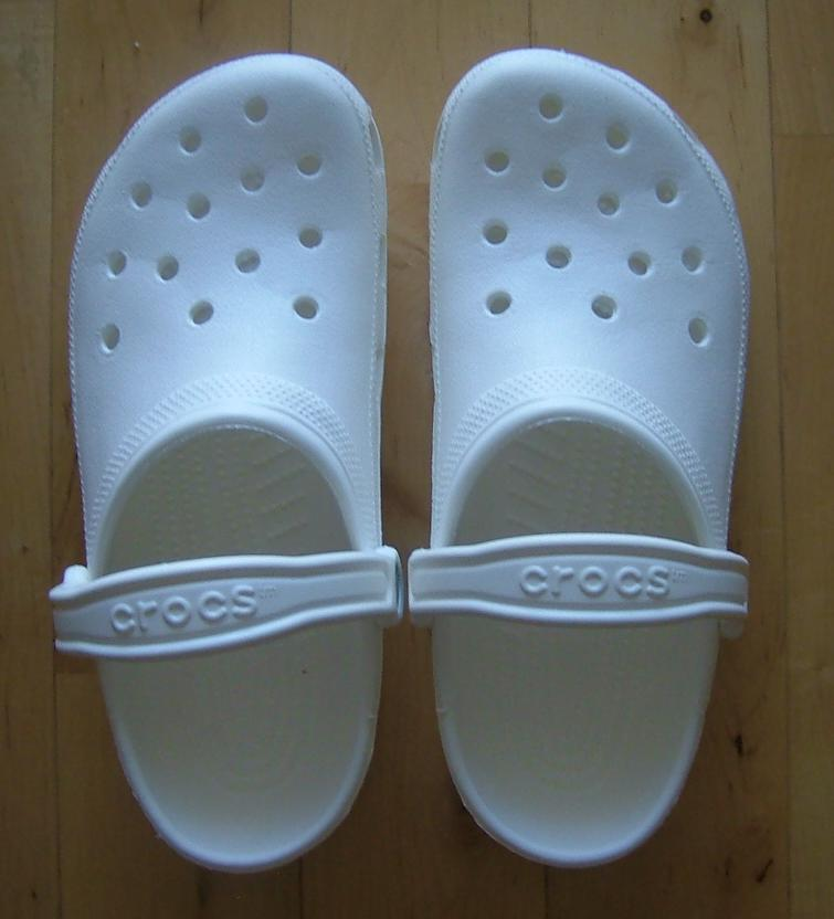 crocs cayman,white